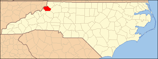 Locator Map of Watauga County, North Carolina, United States